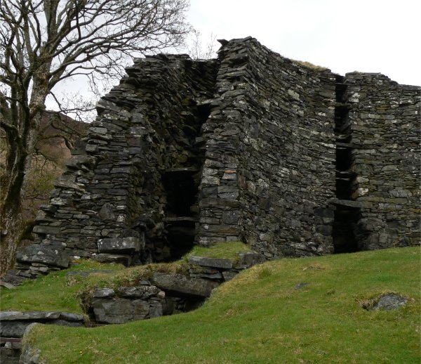 Dun Troddan, one of the Glenelg Brochs in Scotland